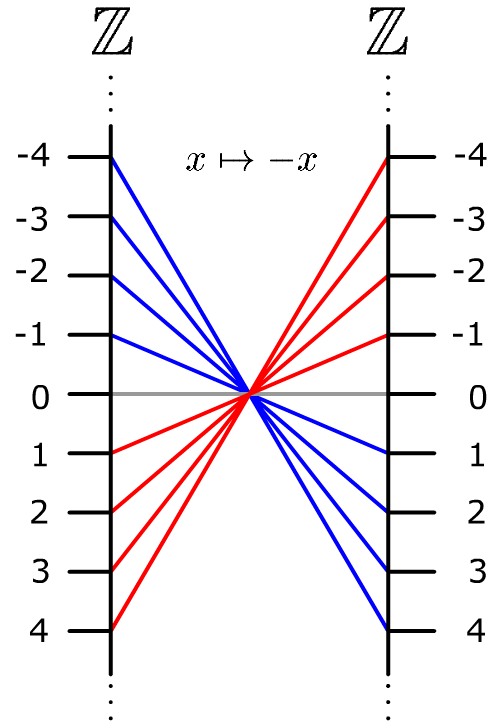 Illustration of Automorphism